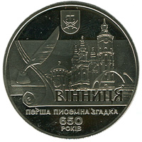 The reverse of commemorative coin of Ukraine "650 years of the first written mention of the Vinnitsa" (2013)